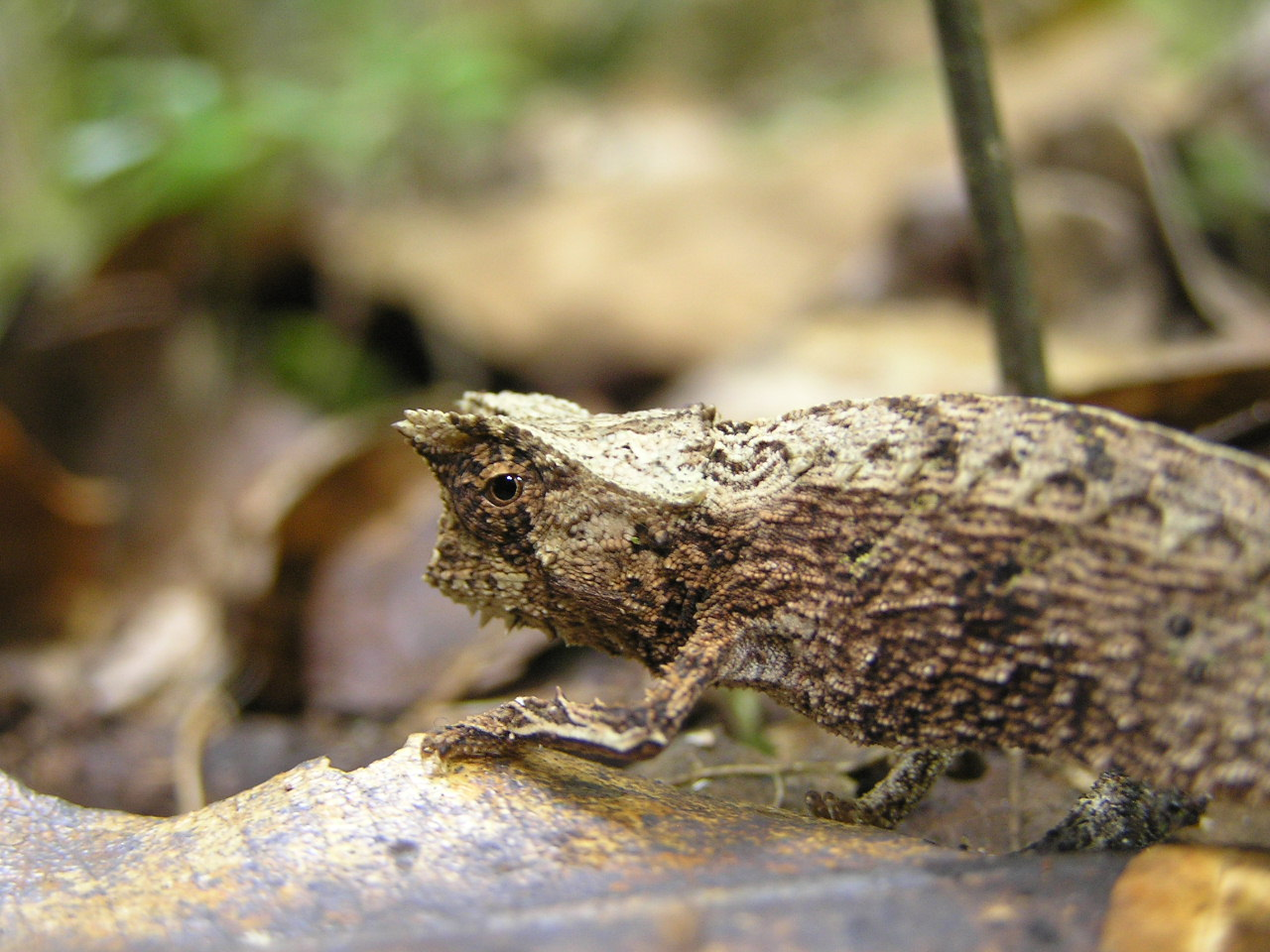 Chameleon (Brookesia) in the 'réserve spéciale d'Analamazotra', Madagascar. Either B. ramanantsoai or B. thieli.